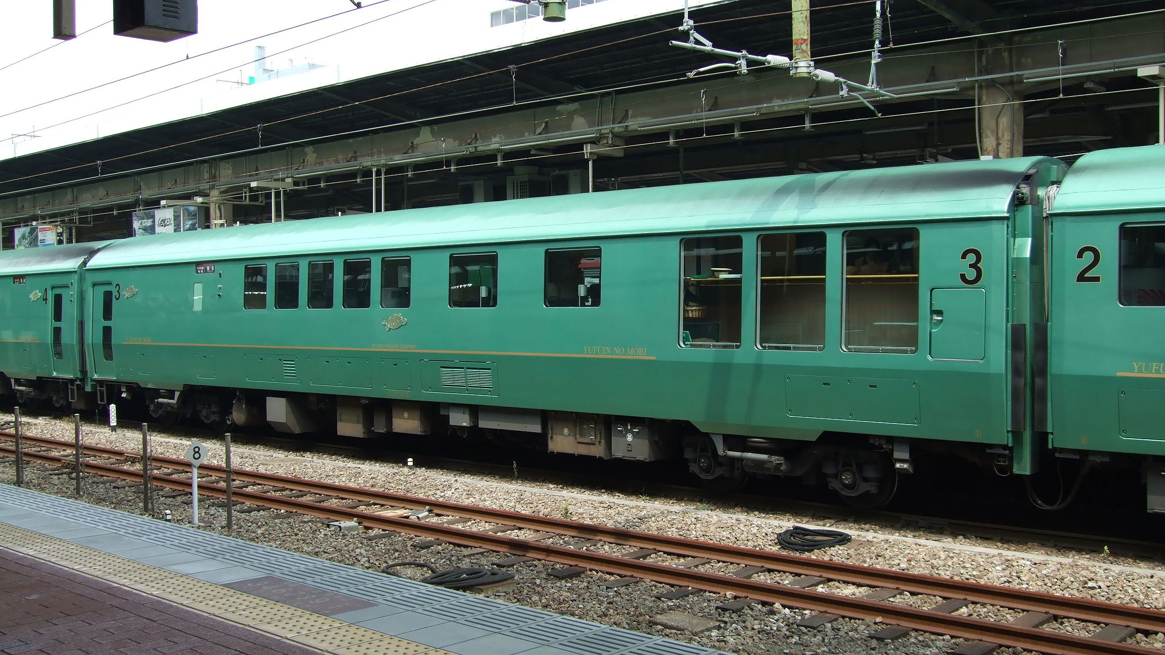 Company:JR Kyushu Type:DMU type kiha72. Code:キハ72-3 Location:At Hakata Station, in Fukuoka City.